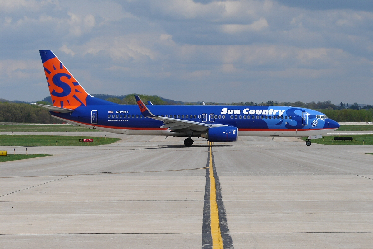 "Sun Country 218" getting ready to head to KMSP empty.